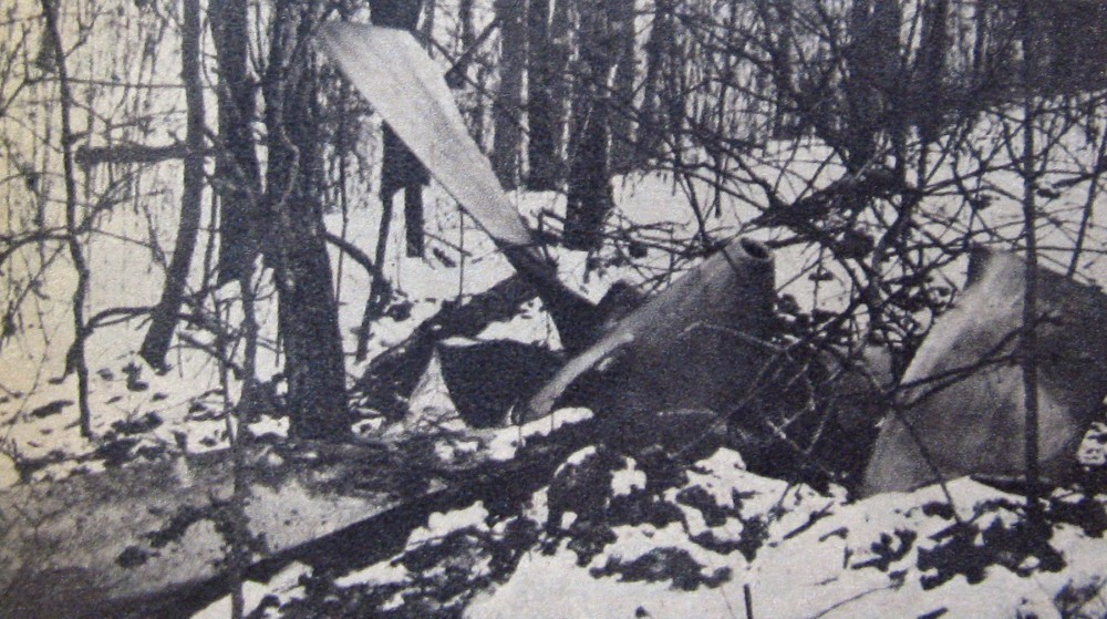 Flight 710 fuselage plunged into an Ohio River country farm at a speed of over 600 miles per hour and disintegrated.